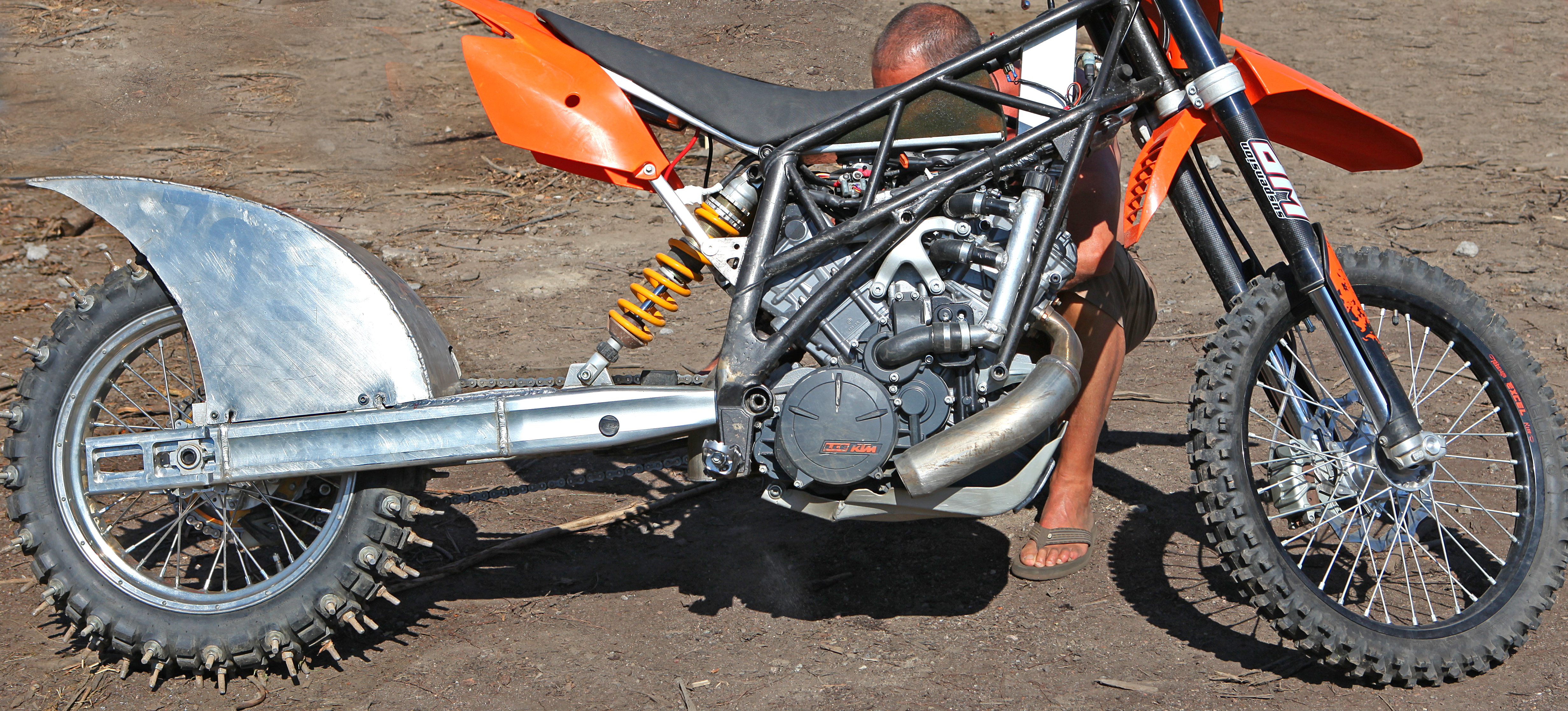 Typical long tail climber with one mean rear tire for climbing steep hills. Arninge Hillclimb 2009